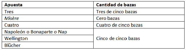 Table bids Napoleon (british)